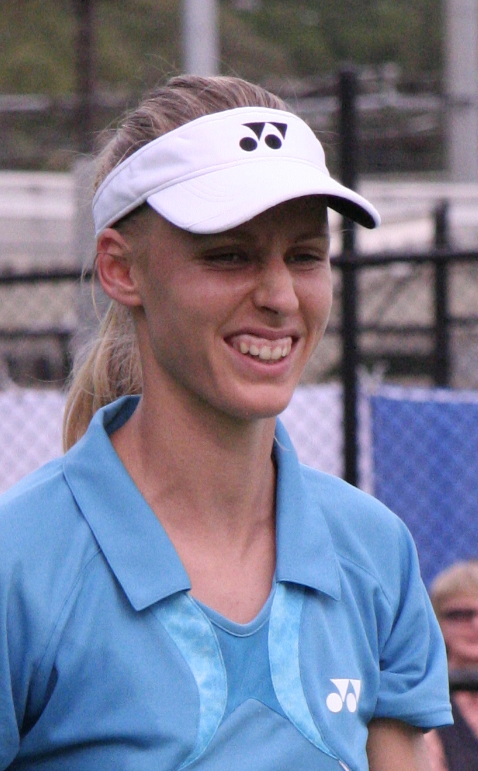 Elena Dementieva at the 2007 Australian Open, during her first-round women's doubles match, partnering Flavia Pennetta (they were seeded 14th).